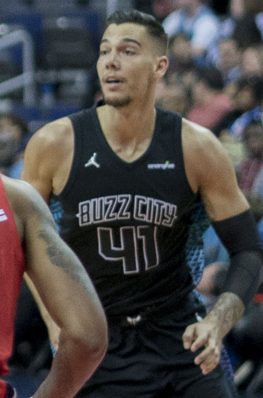 Hornets at Wizards 2/23/18